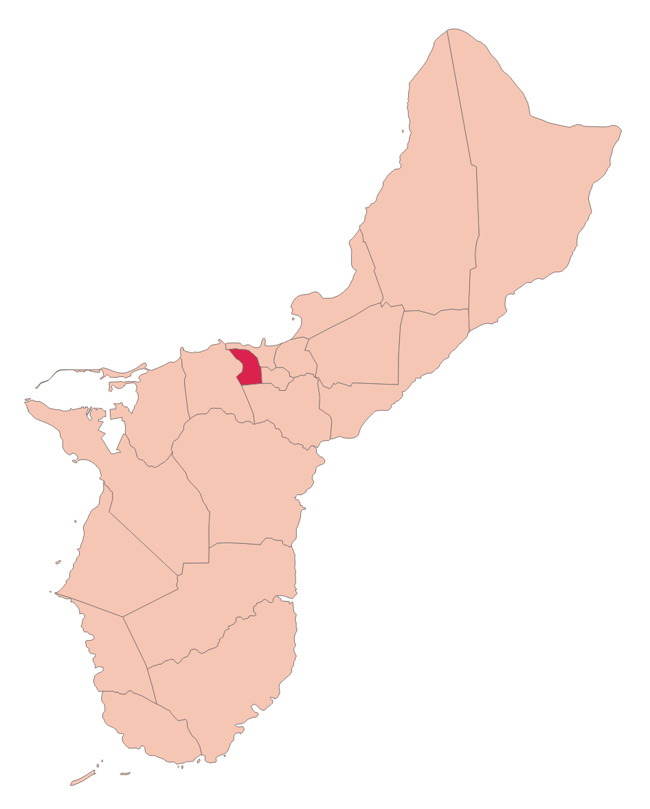 Municipalities of Guam: Agana HeightsChamoru: Tutuhan (Agana Heights), Guåhån.